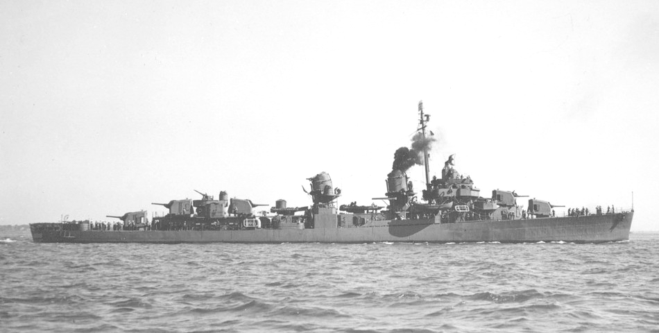 The U.S. Navy destroyer USS Caperton (DD-650) off the Boston Navy Yard, Massachusetts (USA), on 15 August 1943.